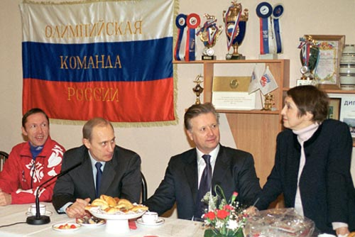 PLANERNAYA TRAINING CENTRE, THE MOSCOW REGION. President Putin meets with members of the Russian Olympic select team. President Putin with Russian skier, world and Olympic champion Alexei Prokurorov, Leonid Tyagachyov, President of the National Olympic Committee, and Tamara Moskvina, coach of the Russian figure-skating Olympic team (left to right).